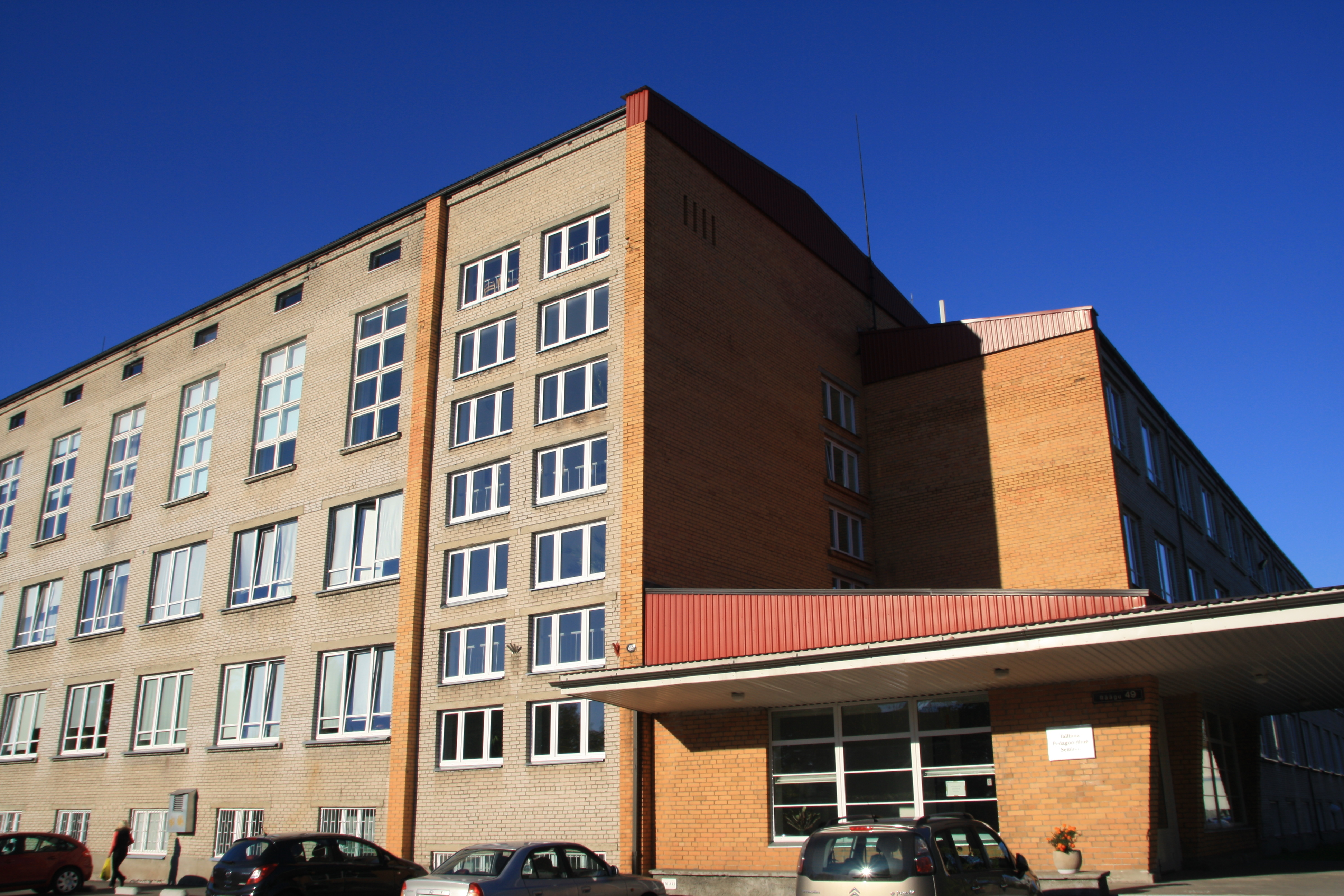 Tallinn Pedagogical College